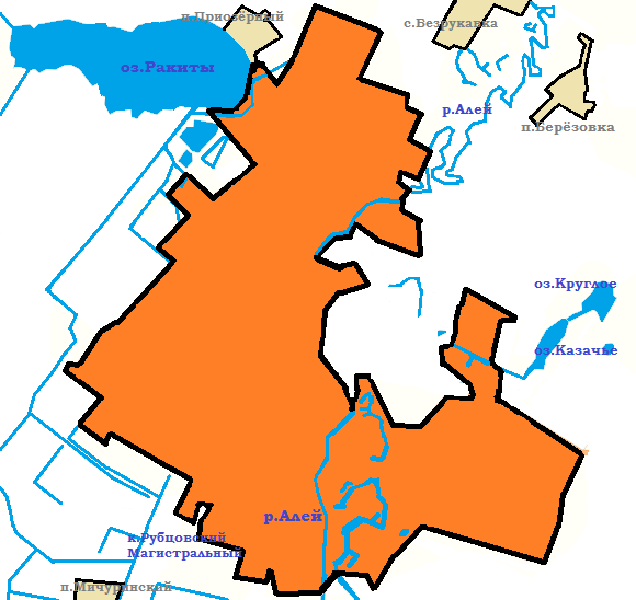 Map of Rubtsovsk (Russia)